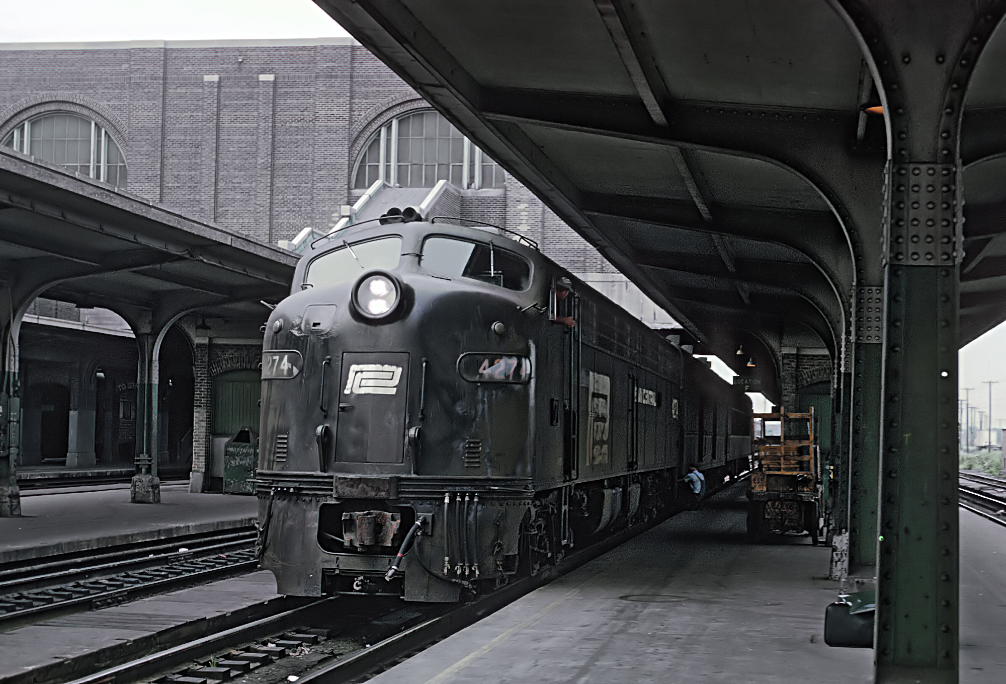 The Harrisburg-Buffalo Buffalo Day Express at Buffalo Central Terminal in Buffalo, New York on July 20, 1969